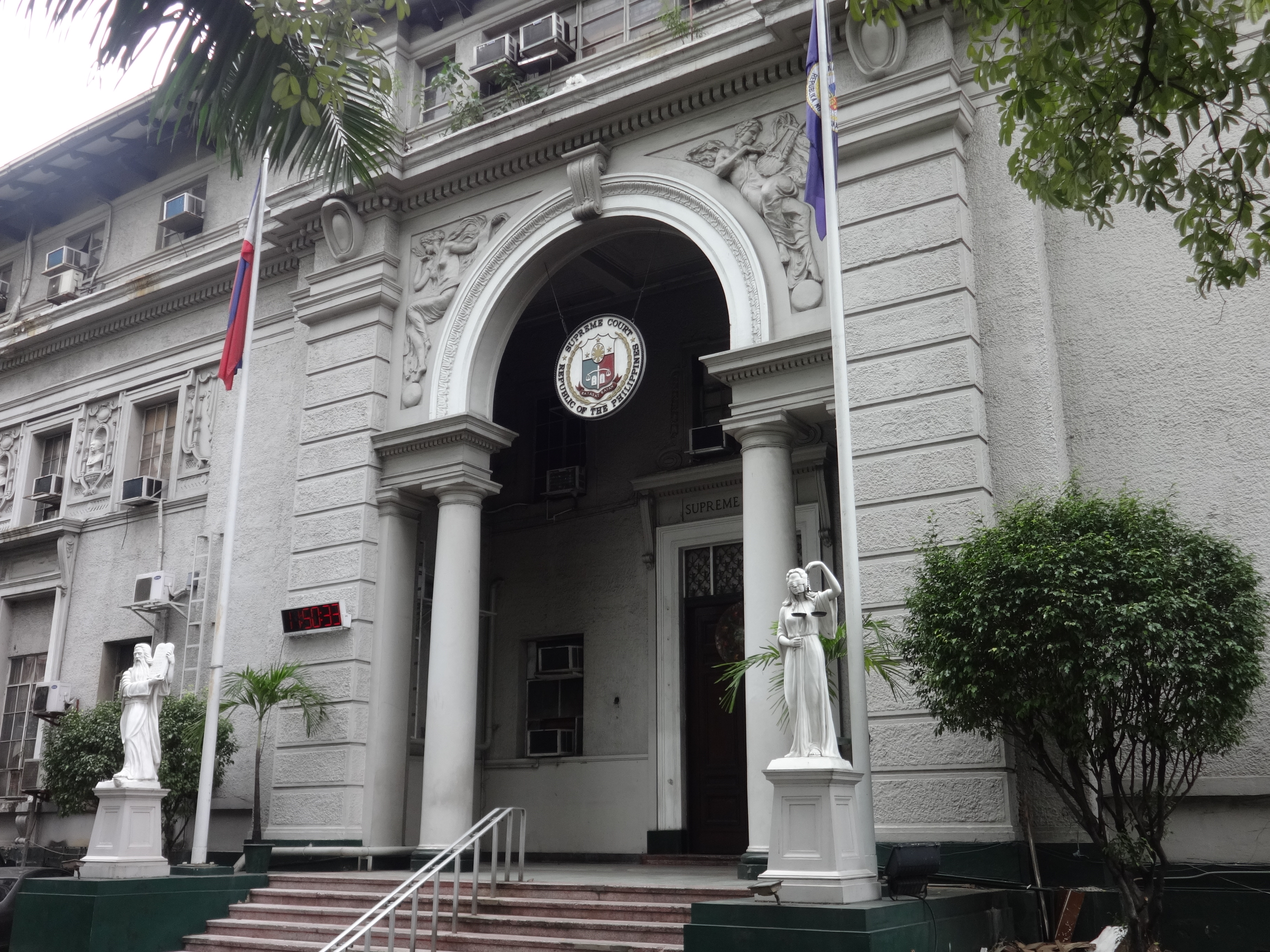 Supreme Court old building along Taft Avenue, Manila